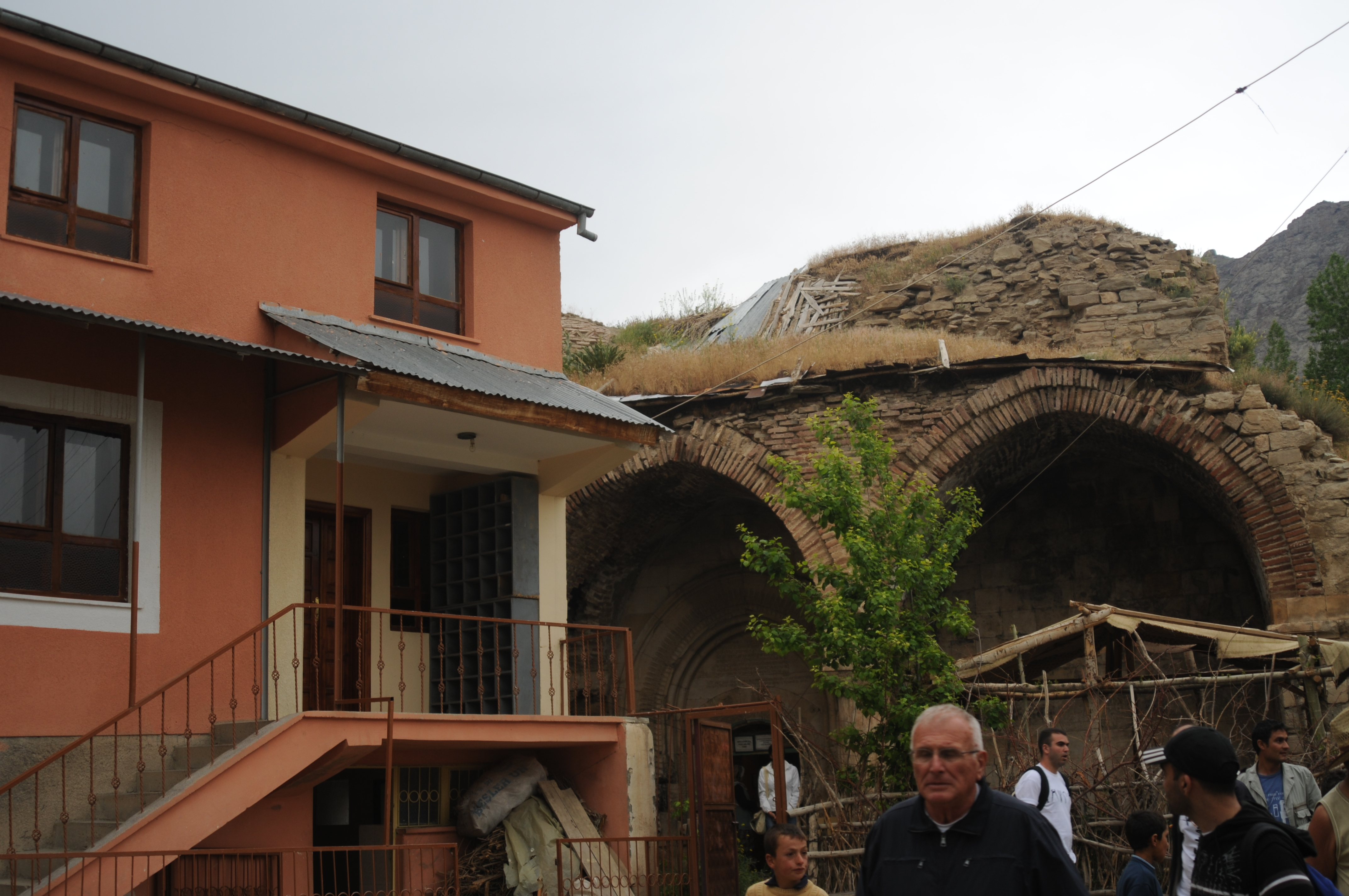 Varakavank in 2009